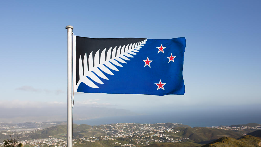 Lockwood Silver Fern Flag over on a flag pole with Wellington, New Zealand in the background